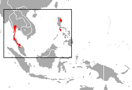 Large Asian Roundleaf Bat (Hipposideros lekaguli) range